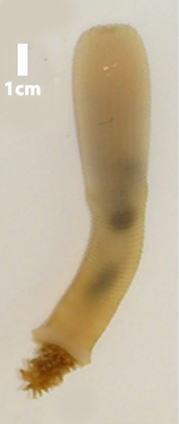 Priapulus caudatus, adult specimen